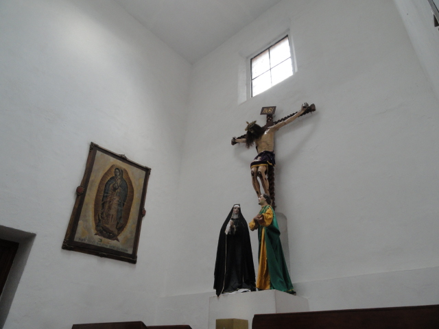 Lateral view of the chapel of the Holy Cross.